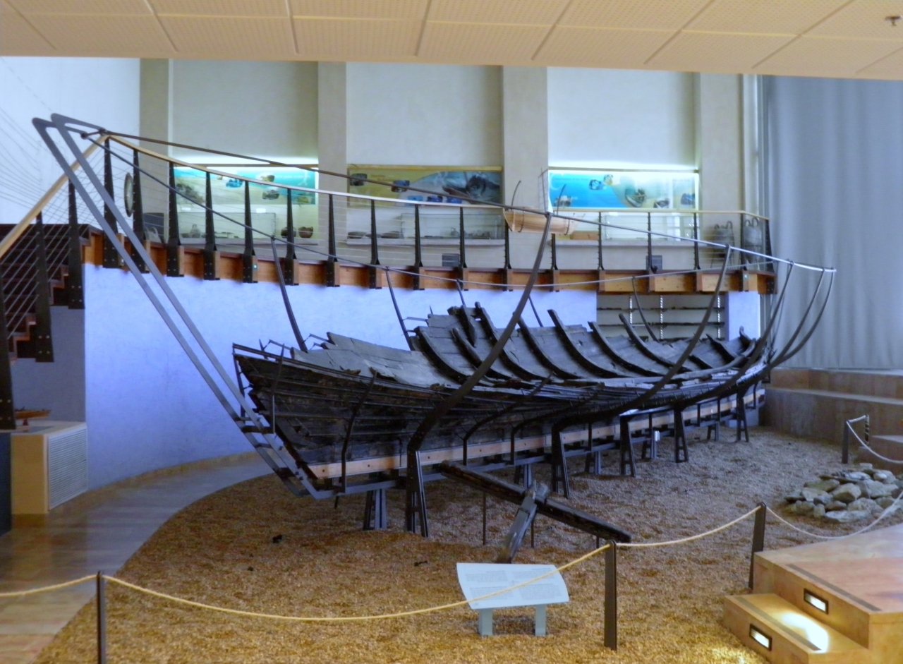 Ancient ship uncovered off the coast of Maagan Michael, Israel. On display in the Hecht Museum, Haifa.